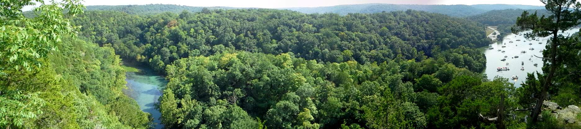 Panoramic view from a 250-foot bluff of a 48-million gallon per day spring on Lake of the Ozarks. Photo taken on Labor Day weekend in 2013.